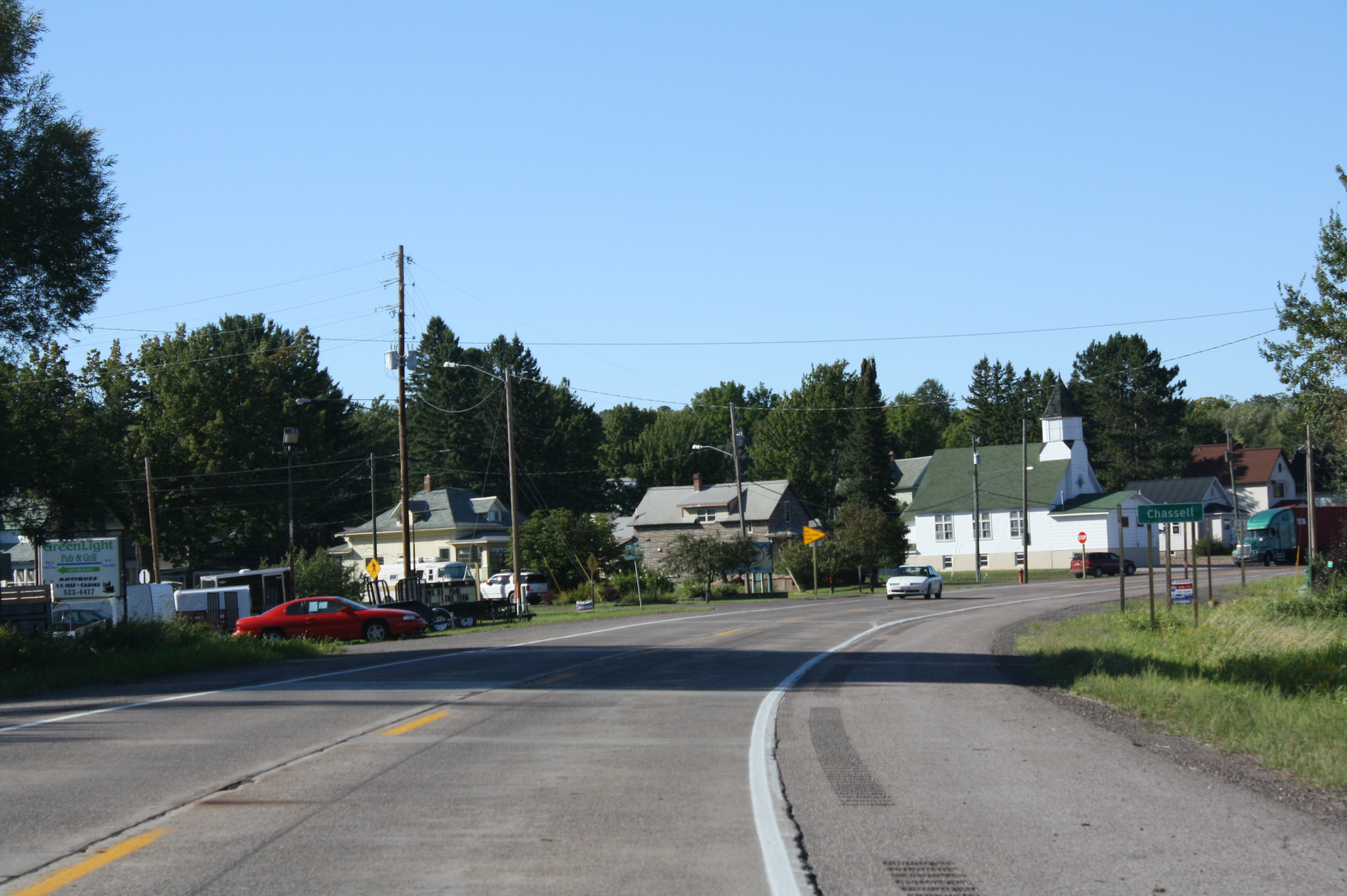 The sign for Chassell, Michigan on U.S. Route 41.